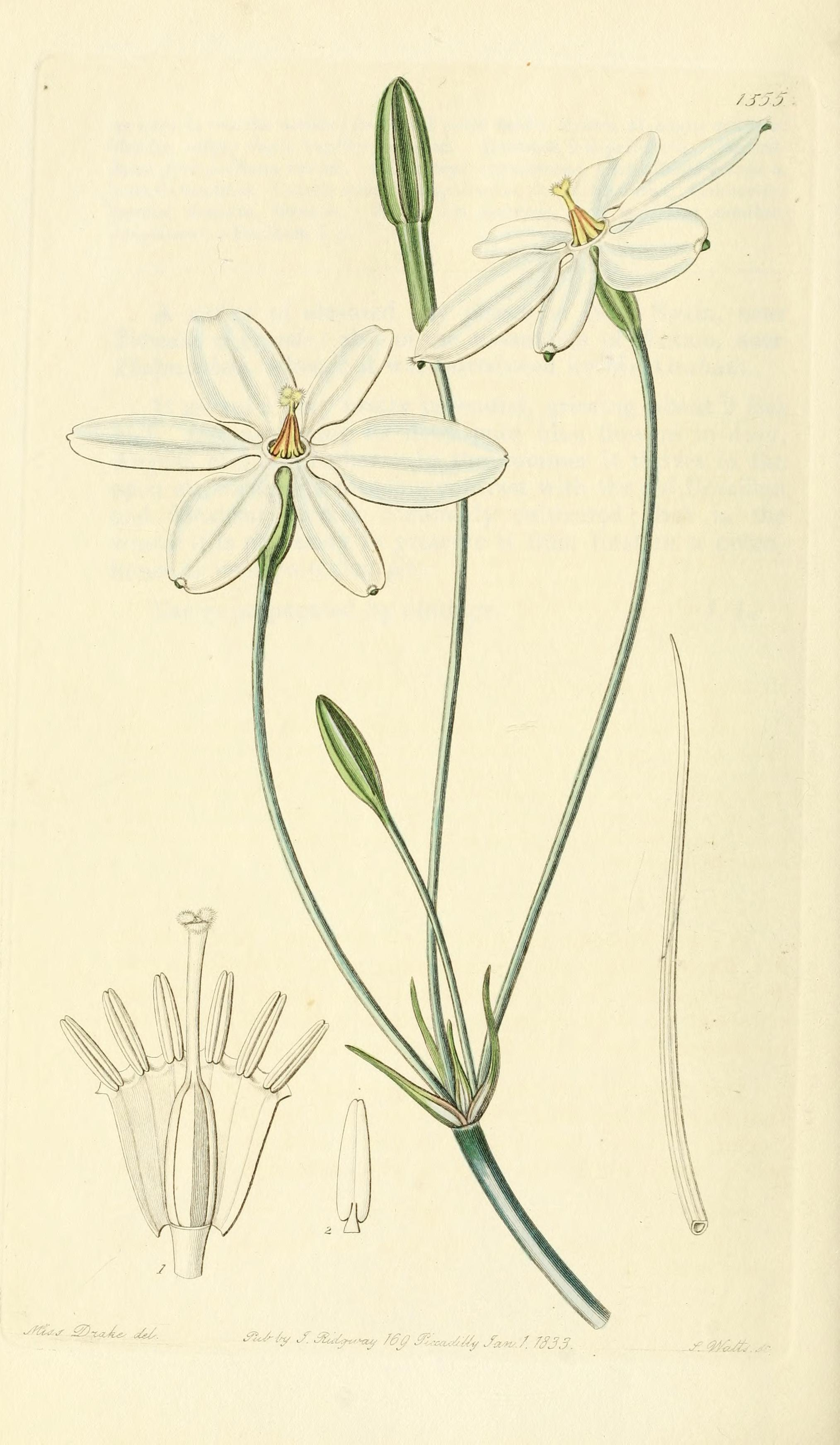 Title: Edwards' botanical register, or, Ornamental flower-garden and shrubbery .. Year: 1829-1847 (1820s) Authors: Edwards, Sydenham, 1769?-1819; Lindley, John, 1799-1865 Subjects: Plants, Ornamental -- Great Britain; Plants, Ornamental -- Great Britain; Plant introduction -- Great Britain; Alien plants -- Great Britain; Botanical illustration -- Great Britain; Botanical illustration -- Great Britain; Plants; Plants Publisher: London : James Ridgway Text Appearing Before Image: ' Text Appearing After Image: ' . ' â â